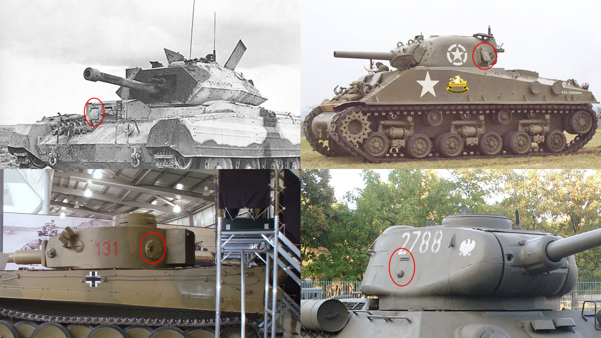 Highlighted pistol ports of WW2 tanks: Crusader tank, Sherman tank, Tiger I tank, and T-34-85 tank